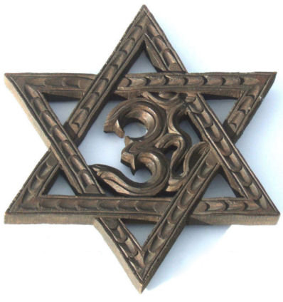 Six-pointed star formed from two interlaced triangles, with "Aum" or "Om" syllable symbol inside